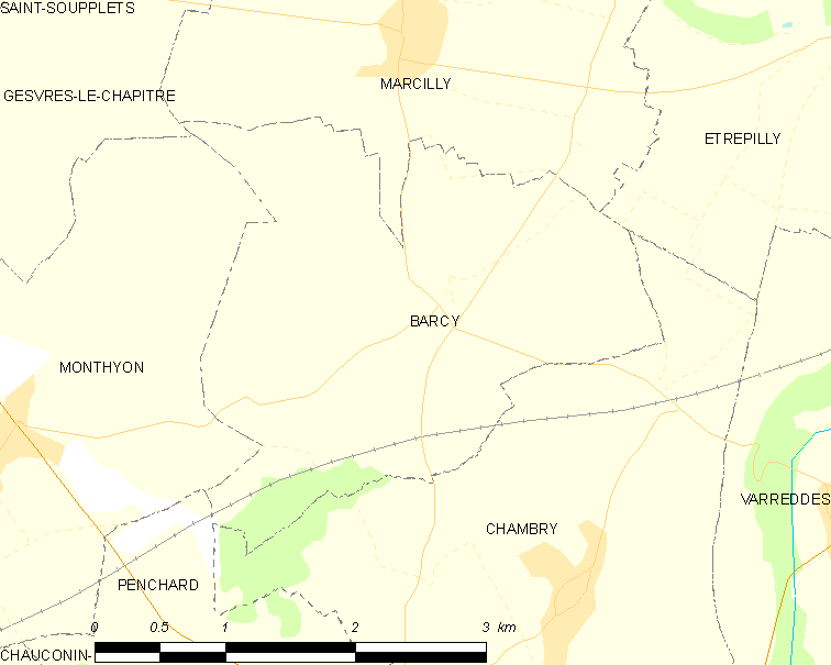 Map of French municipality Barcy